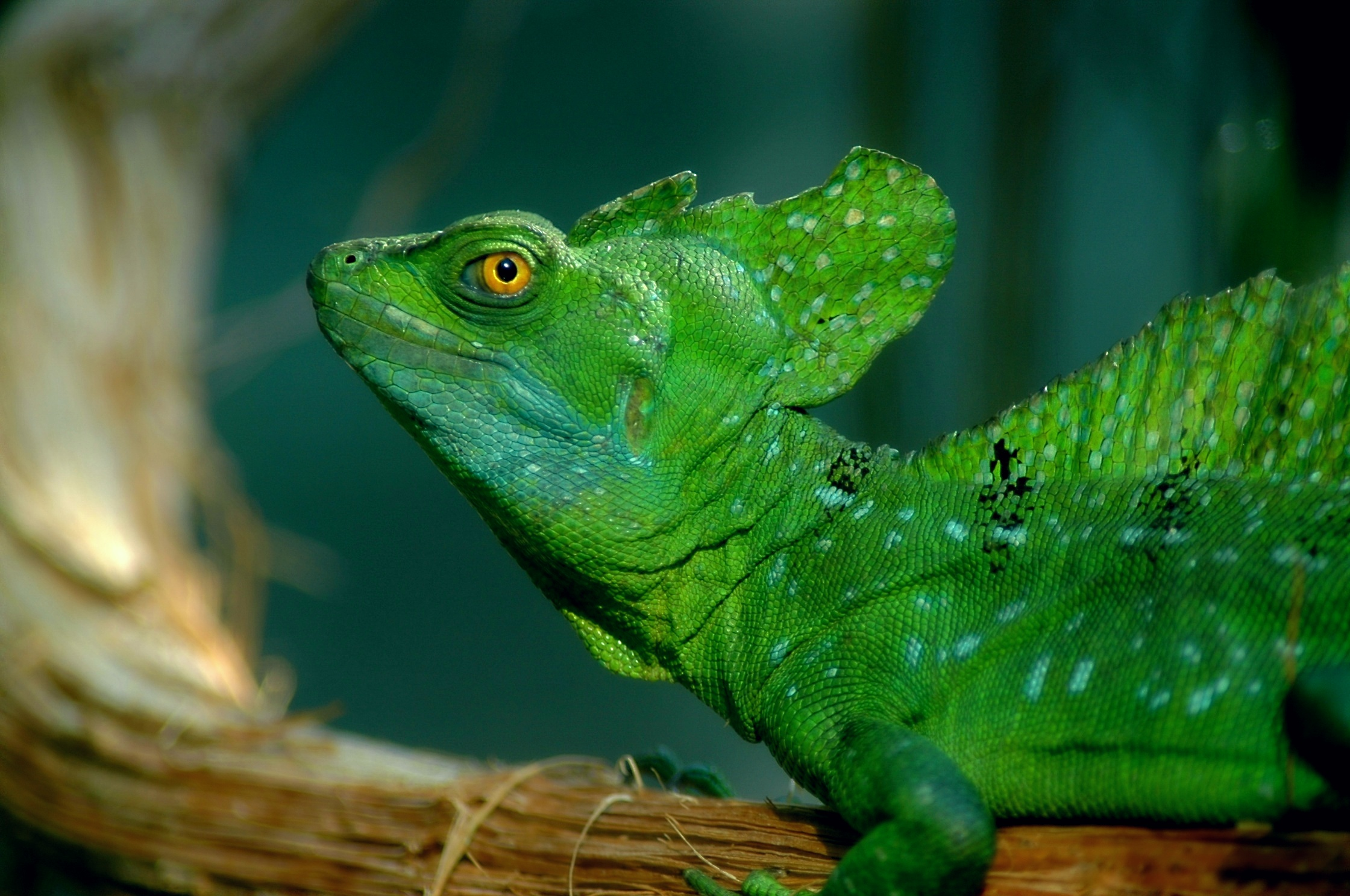 Plumed Basilisk